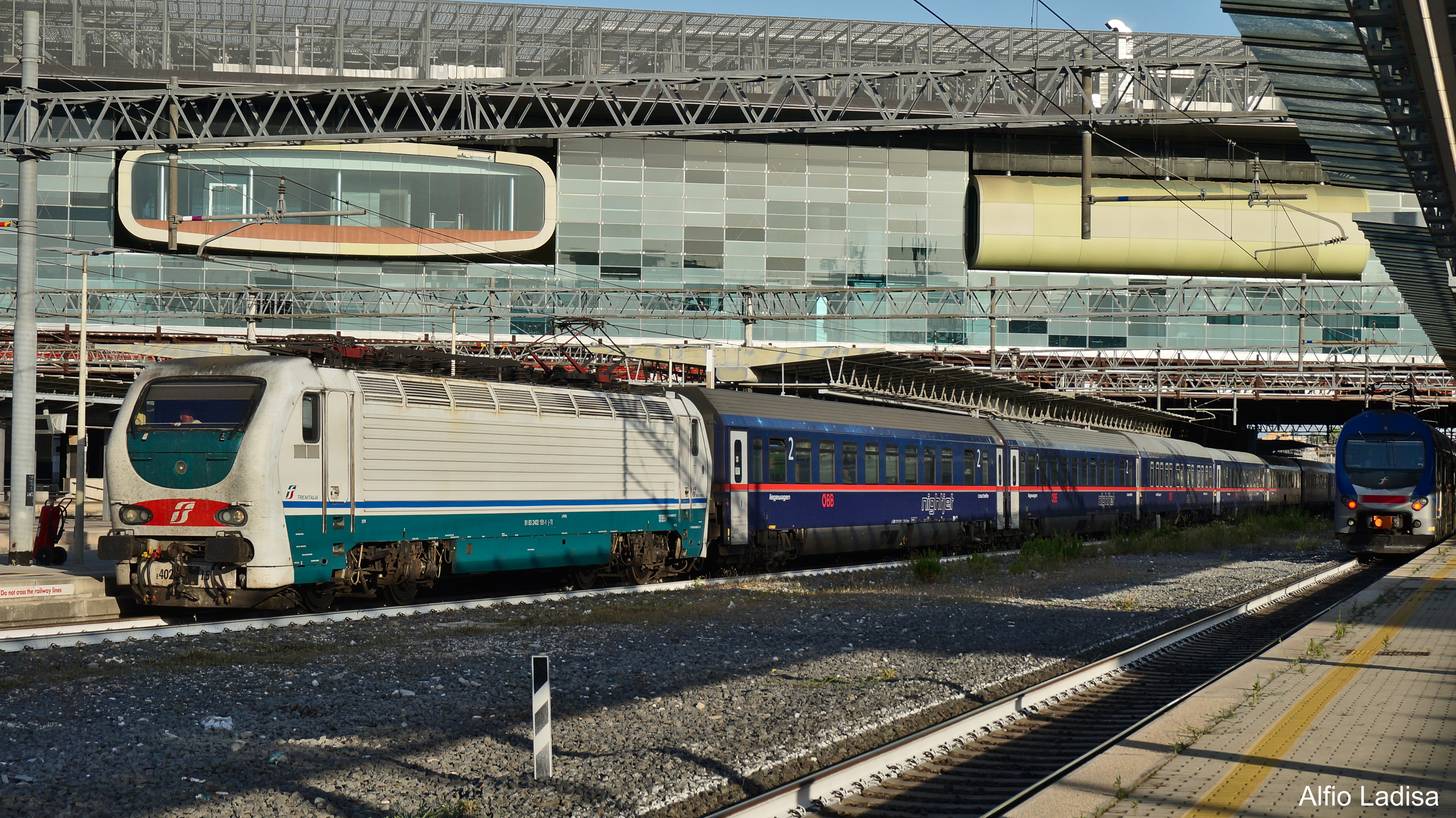 E.402.151 locomotive hauls an Euronight train from Rome to Wien and Munchen